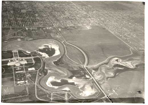 City of Regina Archives website specifies "© Copyright - All photos are public domain unless otherwise indicated."